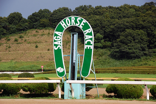 Name?plate of Saga Race Cource in Tosu city, Saga pref.